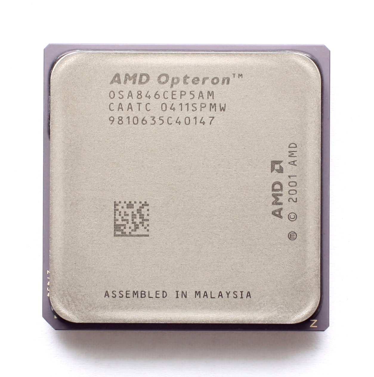 CPU AMD Opteron 846 Sledgehammer